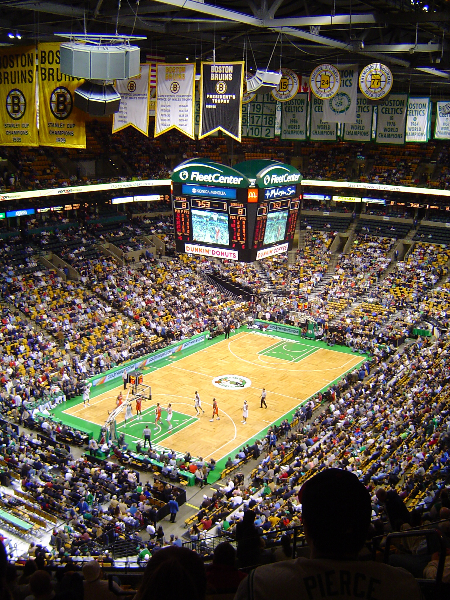 2004 Celtics game at the FleetCenter. 2004 Boston Celtics basketball game at the FleetCenter, the former name of the TD Garden.